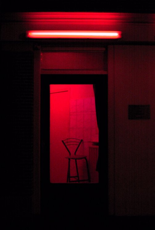 Author: Me - 20/11/2005 - Amsterdam - Red light